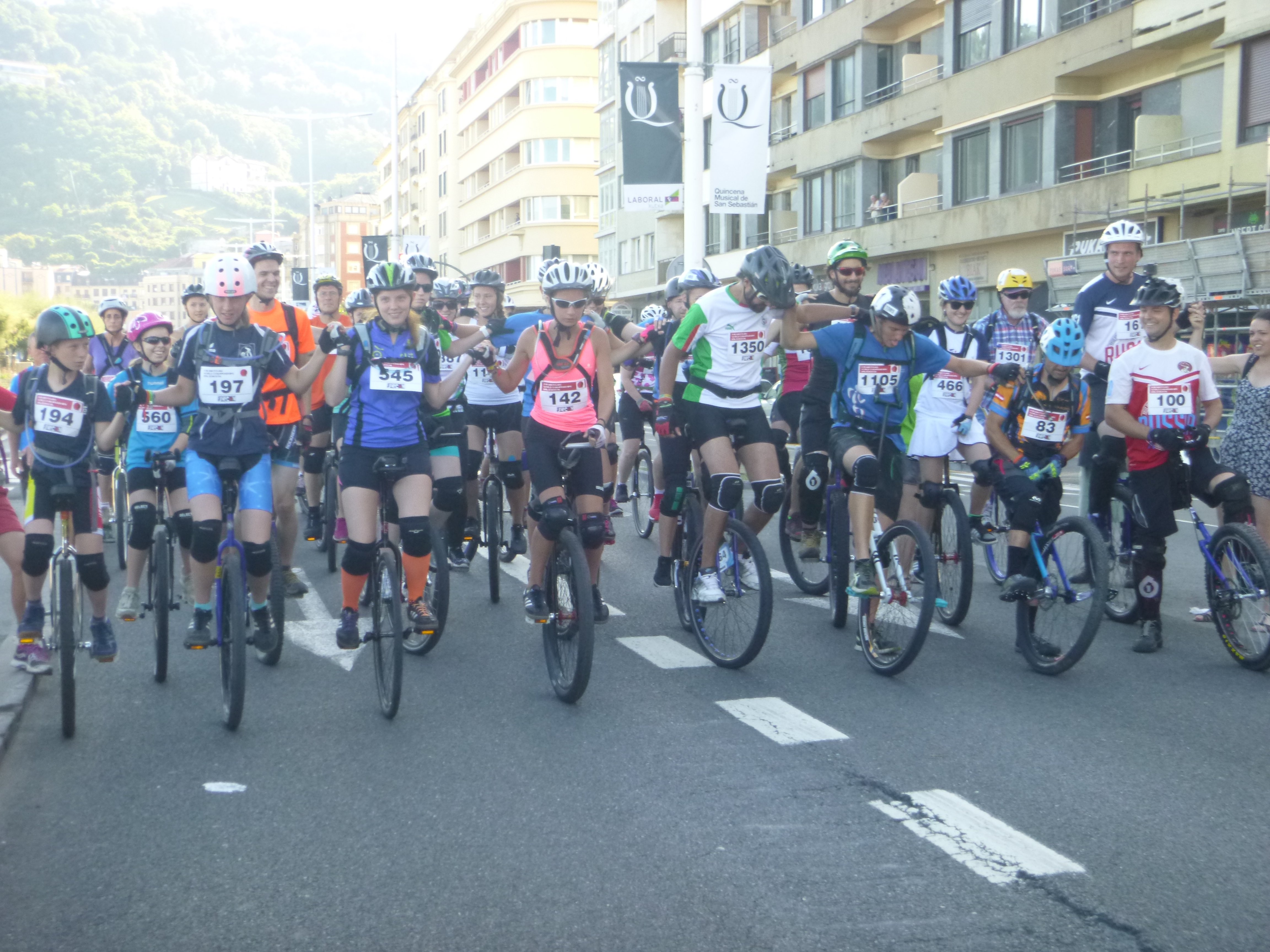 Unicon 18